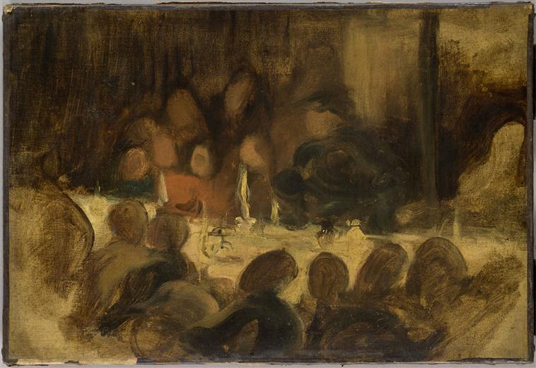 L'ASSASSINAT DE L'EVEQUE DE LIEGE, dit aussi GUILLAUME DE LA MARCK, SURNOMME LE SANGLIER DES ARDENNES